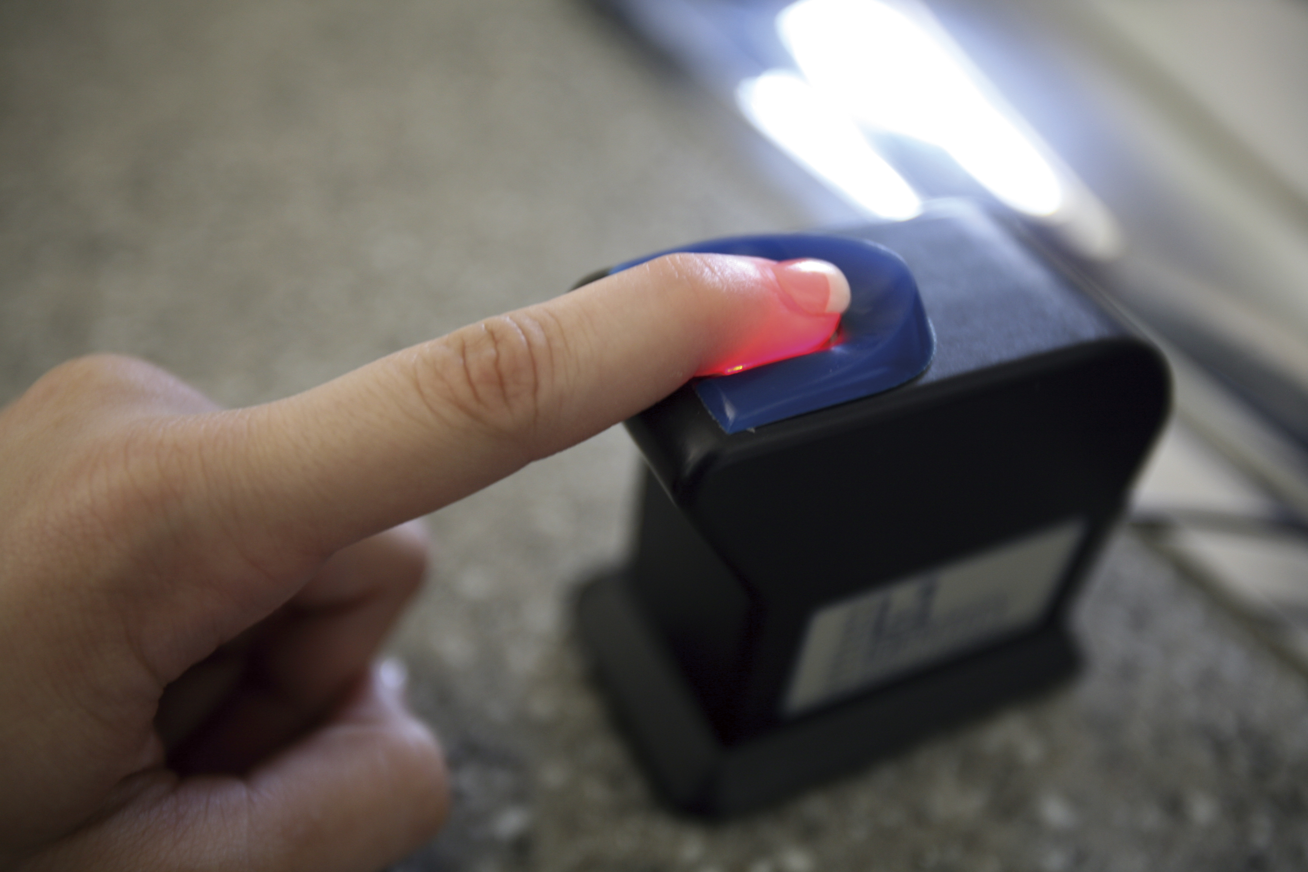 Any personnel requiring access to Kadena Air Base must have their identification card registered into the Defense Biometric Identification System.